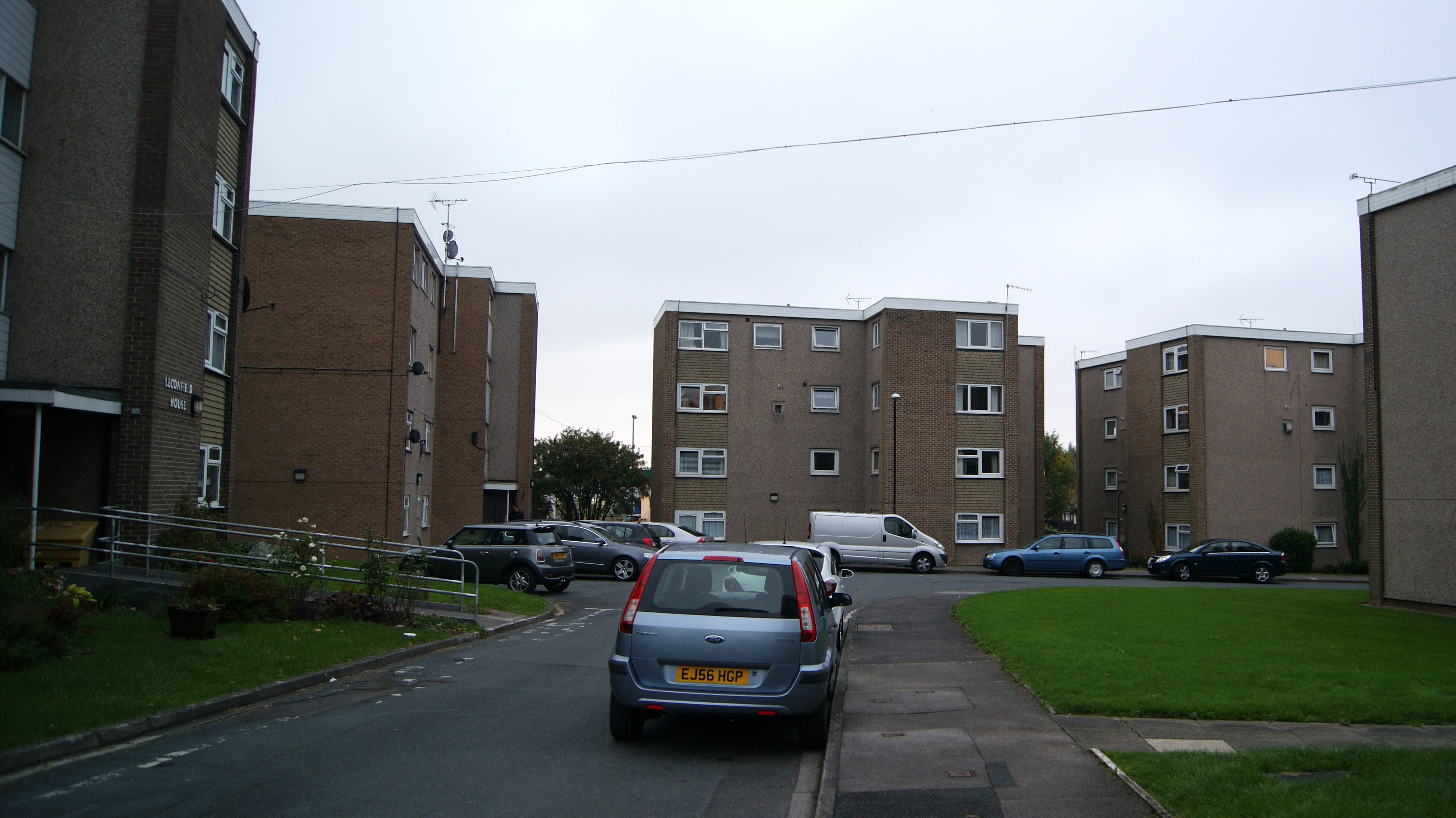 The York Place flats, blocks of local authority flats off York Place in Wetherby, West Yorkshire. Taken on the evening of Saturday the 12th of October 2013.